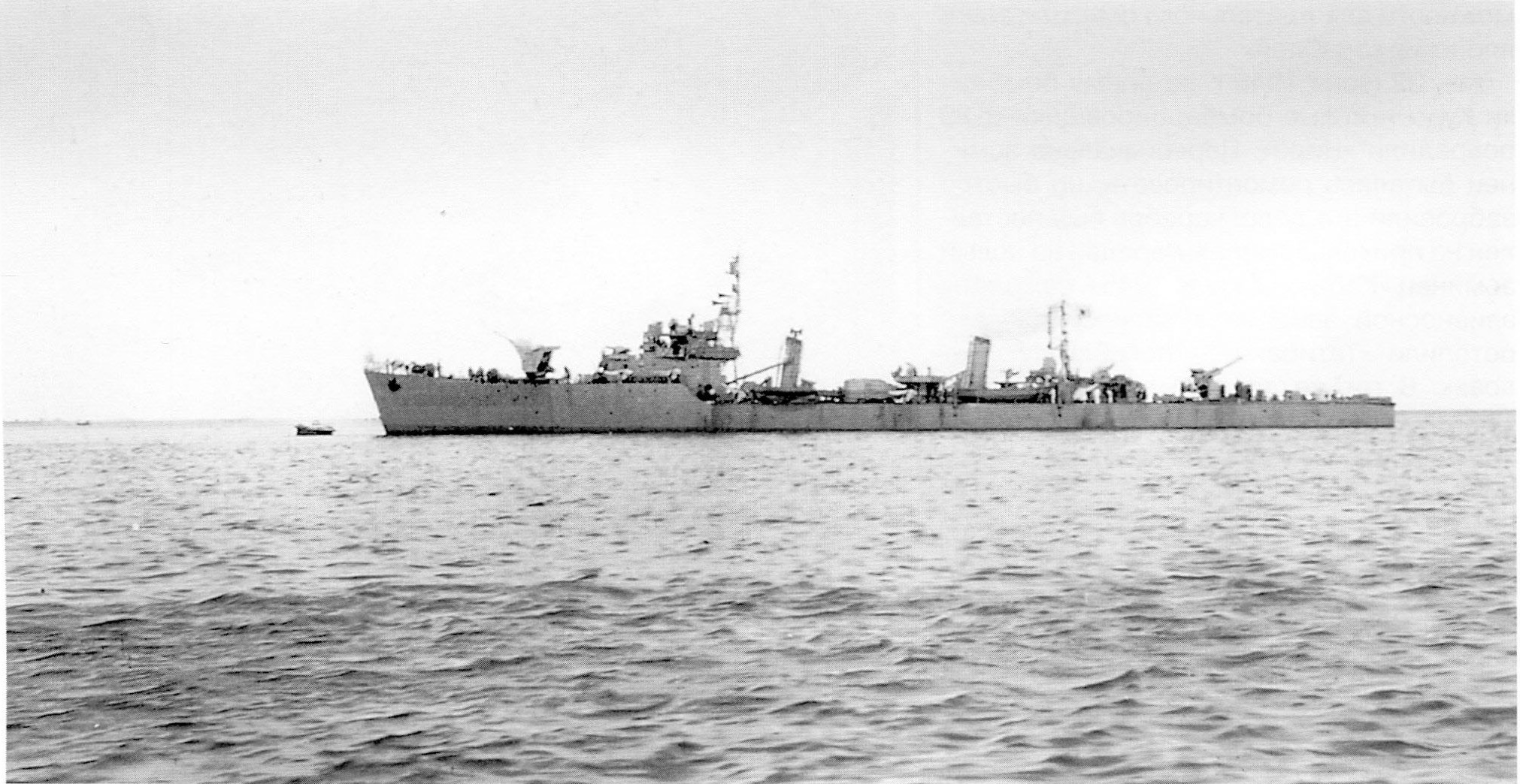 Nire(II), new-Matsu class destroyer(Tachibana class) of the Imperial Japanese Navy, off Maizuru(presumption).